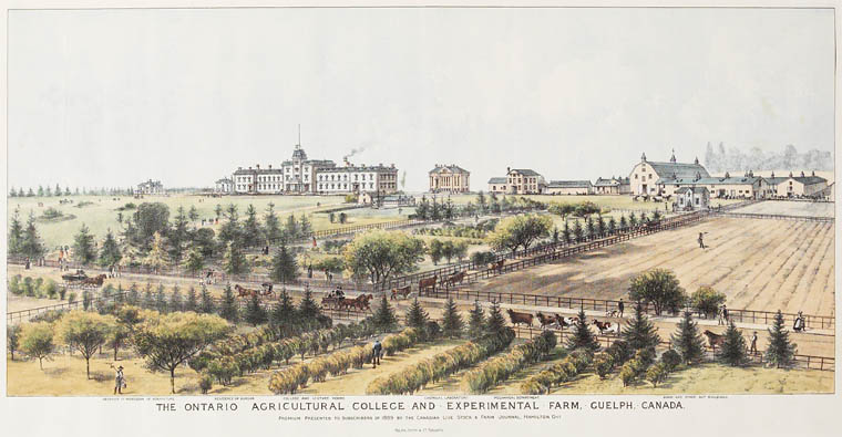 The Ontario Agricultural College and Experimental Farm, Guelph, Canada, 1889. Bird's eye view of agricultural college and surrounding fields.Library and Archives Canada, Acc. No. R9266-1456 Peter Winkworth Collection of Canadiana.